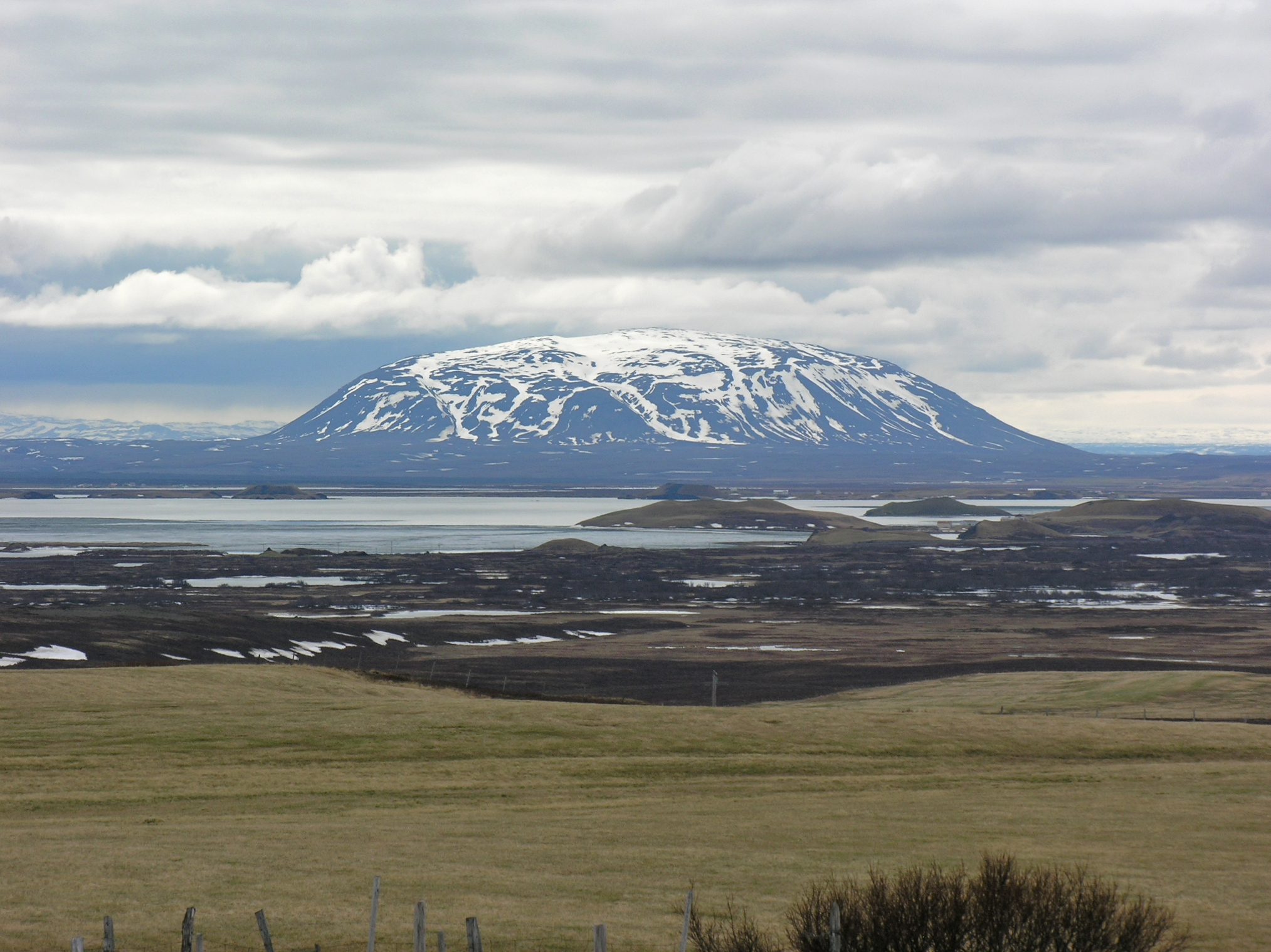 Iceland, views around Lake Mývatn